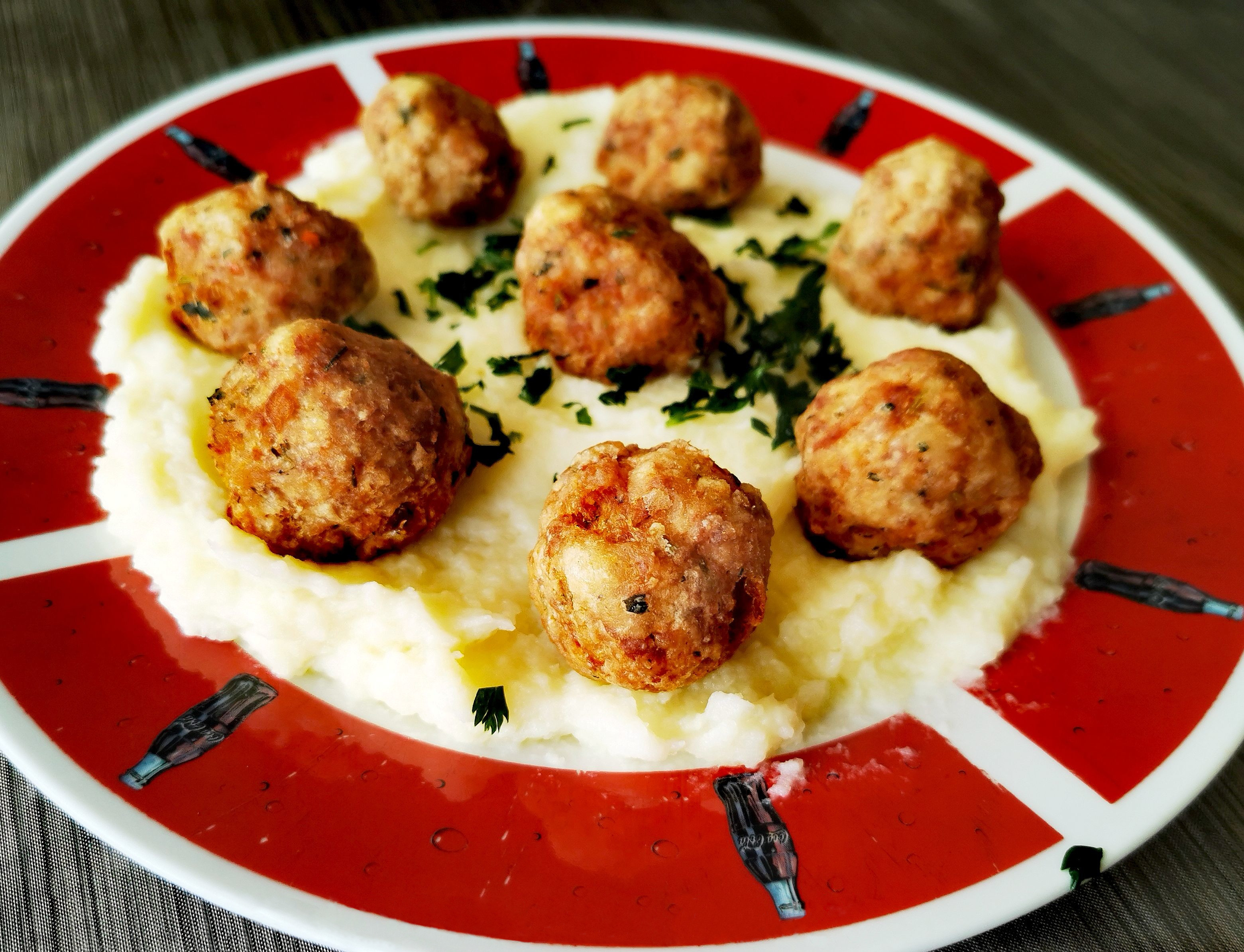 Meatballs in Constantinople - Byzantine dish that would have been enjoyed by the middle classes of merchants and shopkeepers